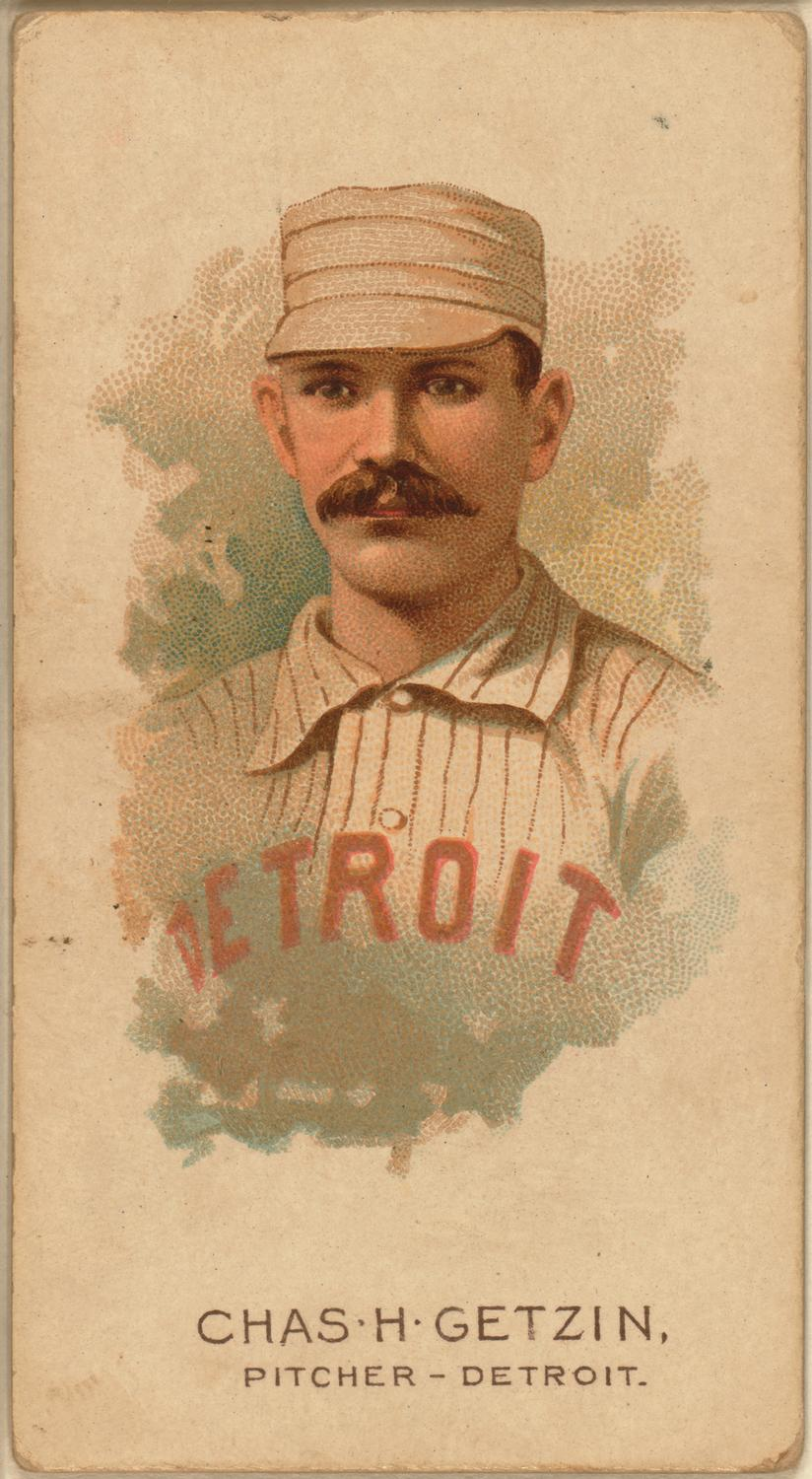 Baseball card of Charlie Getzein, a German starting pitcher who played with the Detroit Wolverine. He batted and threw right handed.